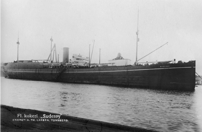 Whaling factory Suderøy of Haugesund, Norway. Ex. Kim (1913)